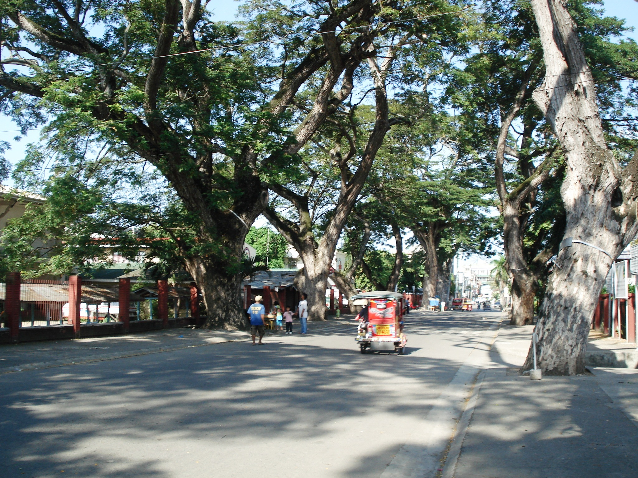 Calle Rizal Zamboanga City